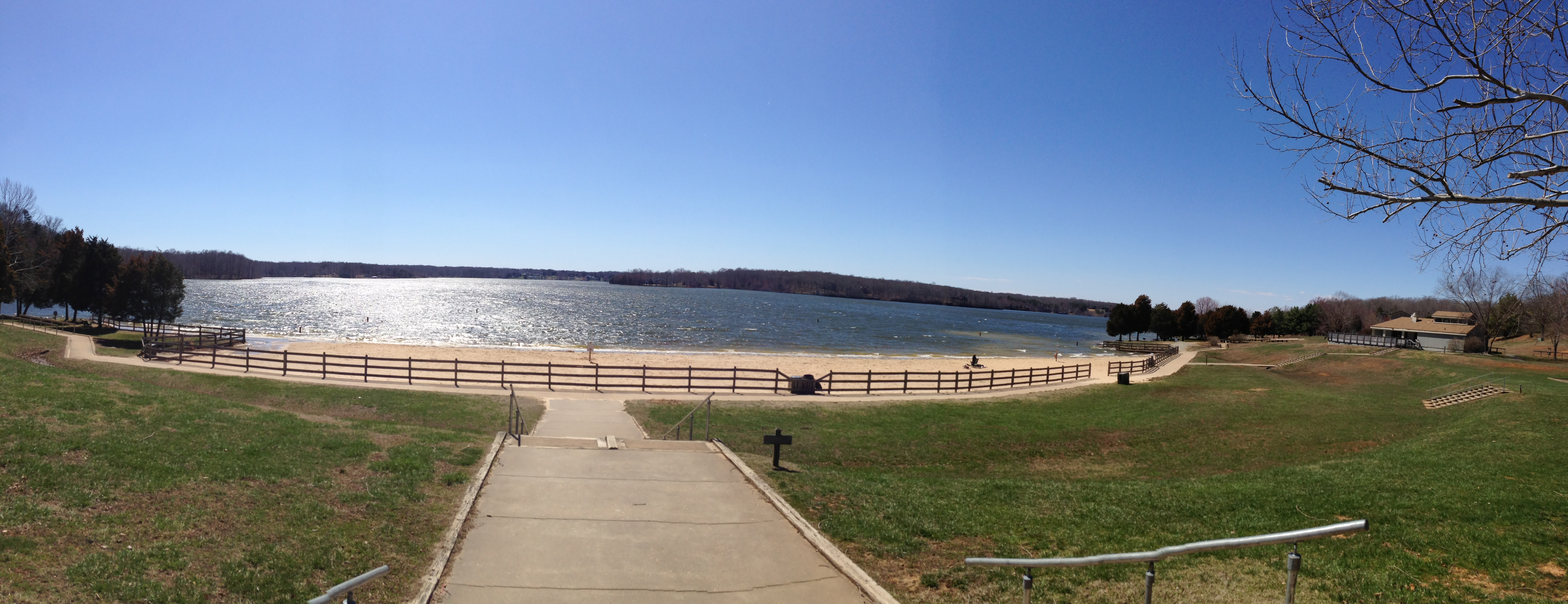 Photograph of the swimming beach at Lake Anna State Park in Virginia, USA